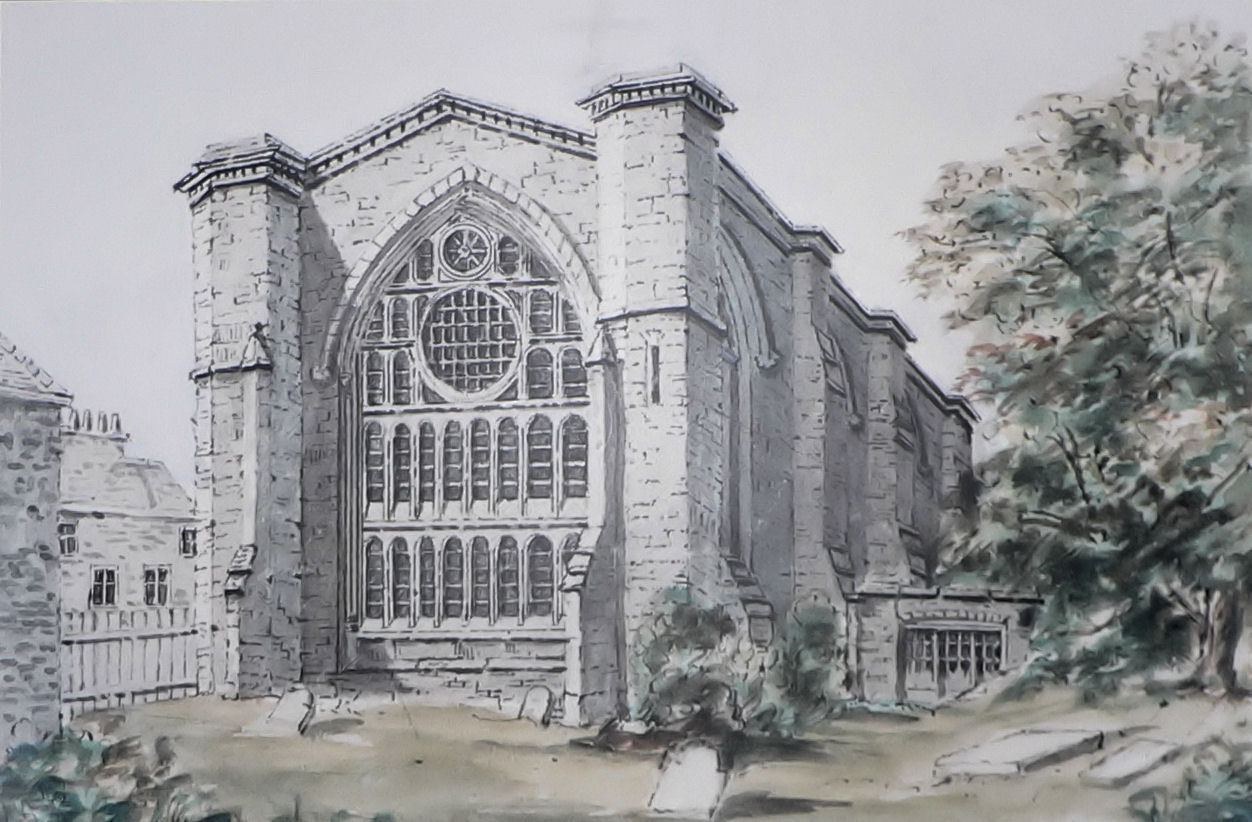 The east end of St. Katharine's Church, the chapel of the hospice founded by Queen Matilda in 1150.